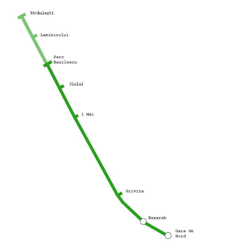 A map of the M4 line of the Bucharest Metro